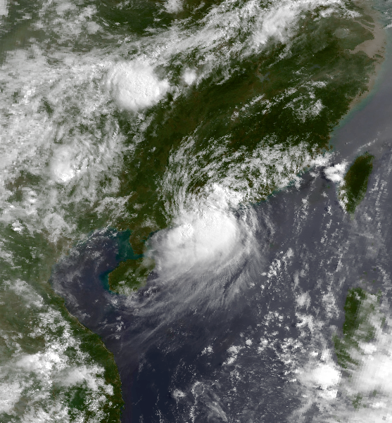 Tropical Storm Faye on July 18, 1992